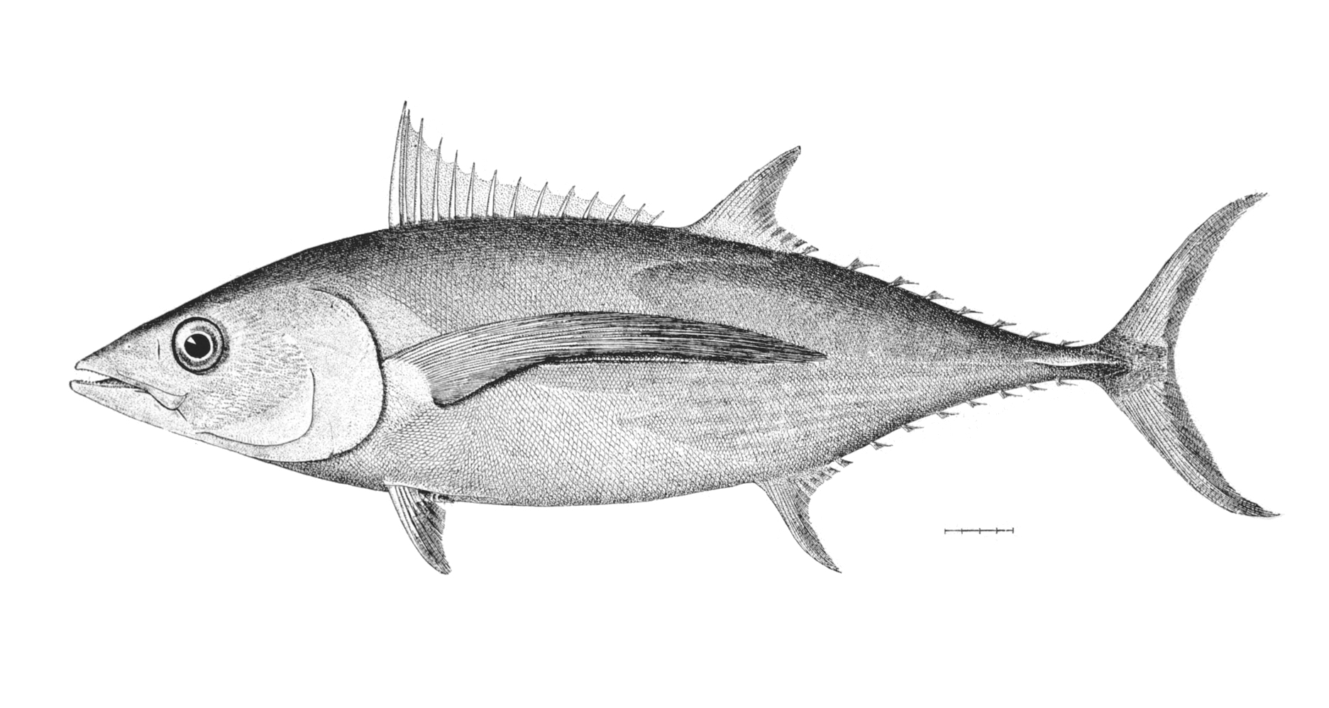 Thunnus alalunga. The specimen #21884 from US National Museum collected at Banquereau, September 10, 1878 by Capt. William Thompson, schooner Magic.